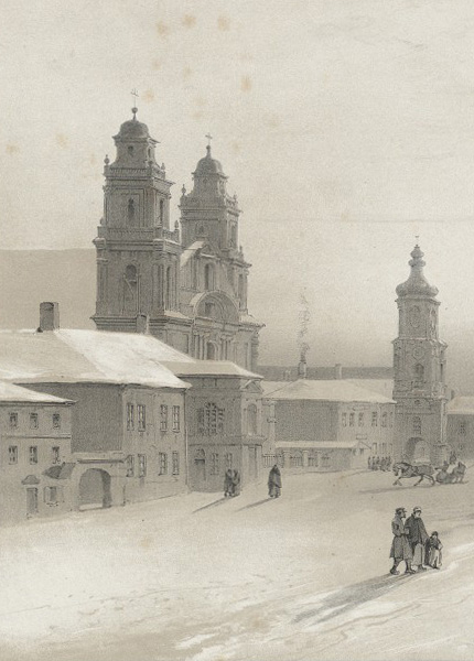 Jesuit College in Miensk